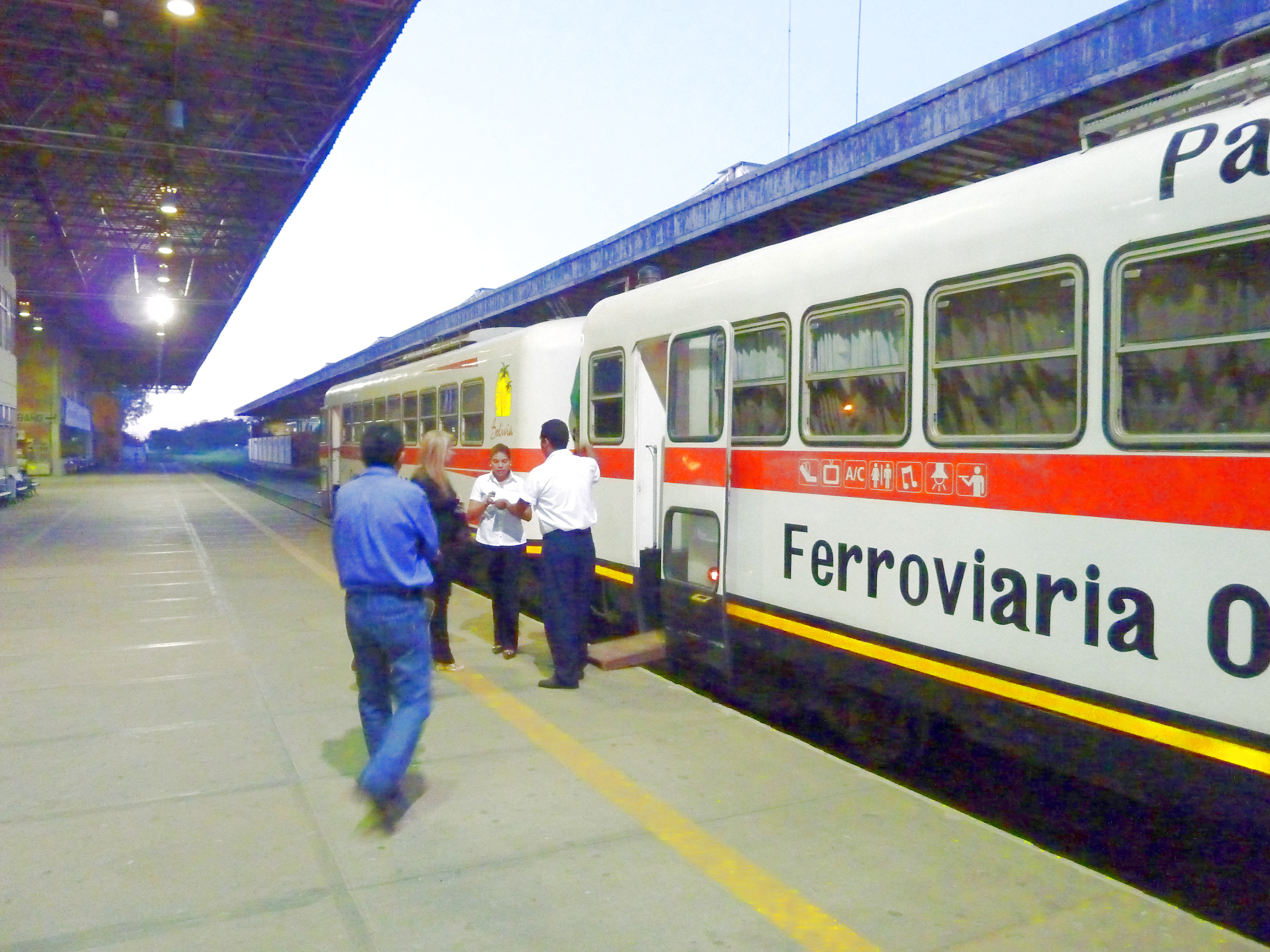 Railbus from Santa Cruz de la Sierra to Puerto Quijarro, Bolivia.